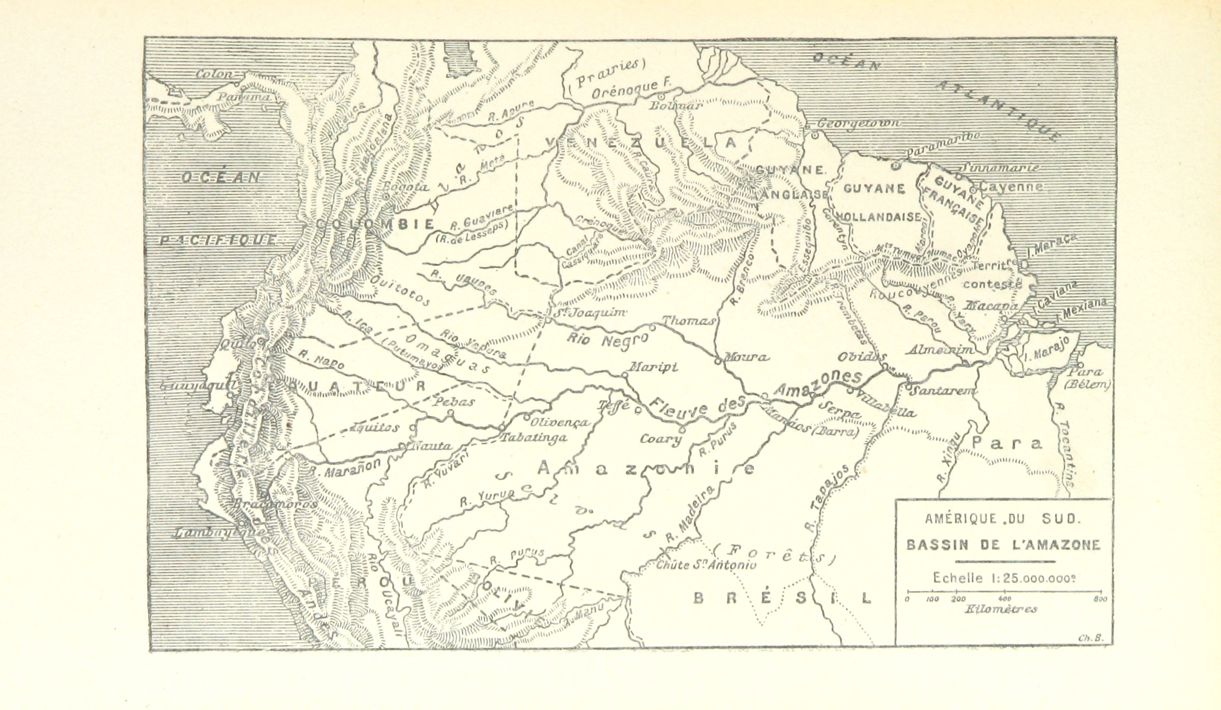 View this map on the BL Georeferencer service. Image taken from: Title: "Les Français en Amazonie ... Illustrations par P. Hercouët et F. Massé" Author: COUDREAU, Henri Anatole. Shelfmark: "British Library HMNTS 10481.f.26." Page: 33 Place of Publishing: Paris Date of Publishing: 1887 Issuance: monographic Identifier: 000798313 Explore: Find this item in the British Library catalogue, 'Explore'. Download the PDF for this book (volume: 0) Image found on book scan 33 (NB not necessarily a page number) Download the OCR-derived text for this volume: (plain text) or (json) Click here to see all the illustrations in this book and click here to browse other illustrations published in books in the same year. Order a higher quality version from here.